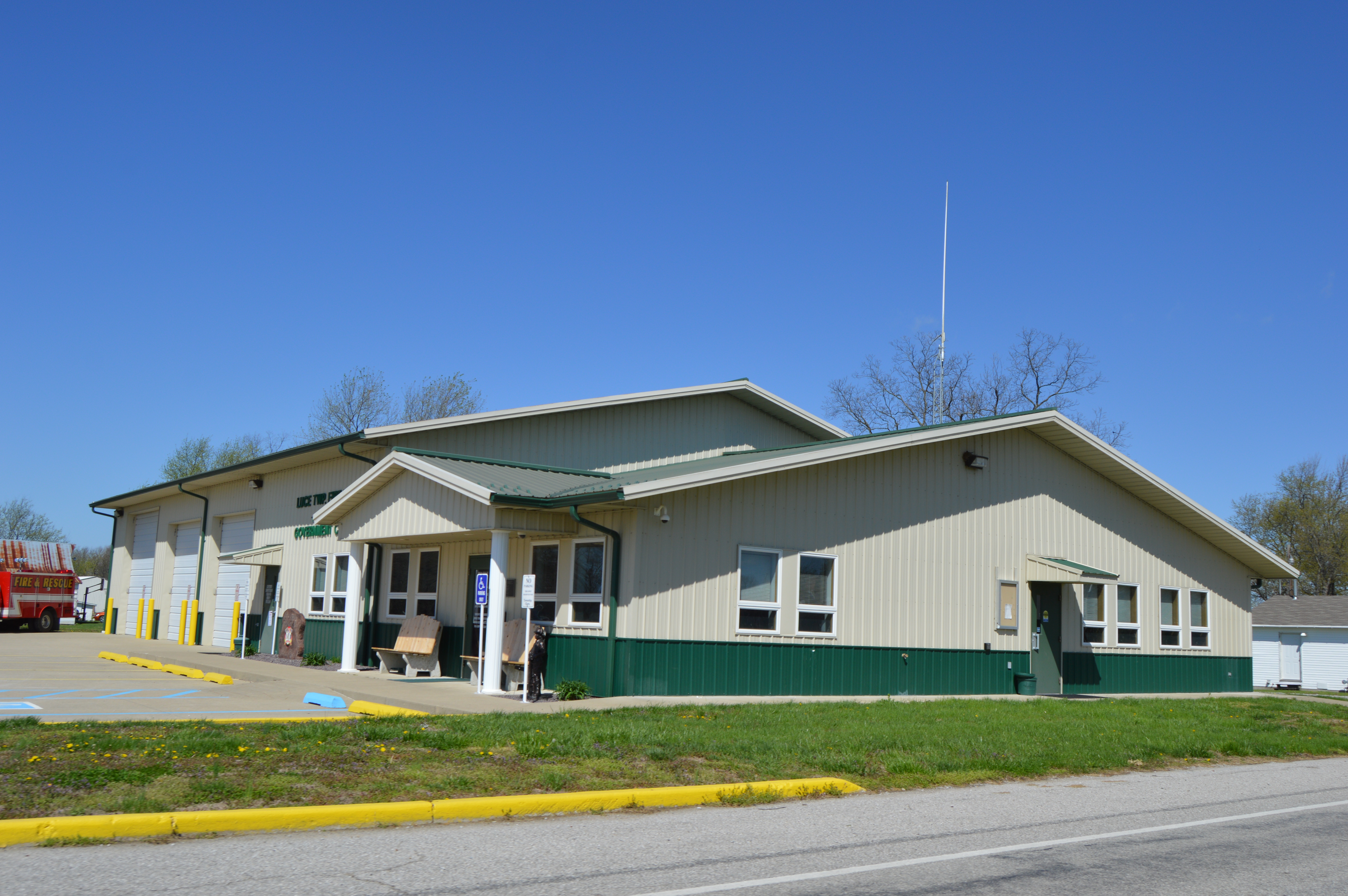 Front of the Luce Township fire station and township hall, located at 3934 Main Street (State Road 161) in Richland City, Indiana, United States.